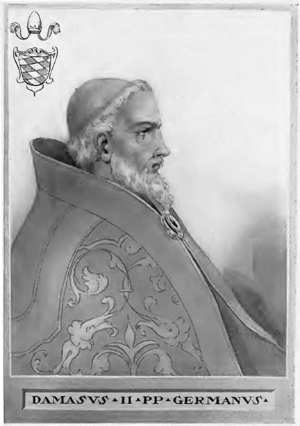 This illustration is from The Lives and Times of the Popes by Chevalier Artaud de Montor, New York: The Catholic Publication Society of America, 1911. It was originally published in 1842.